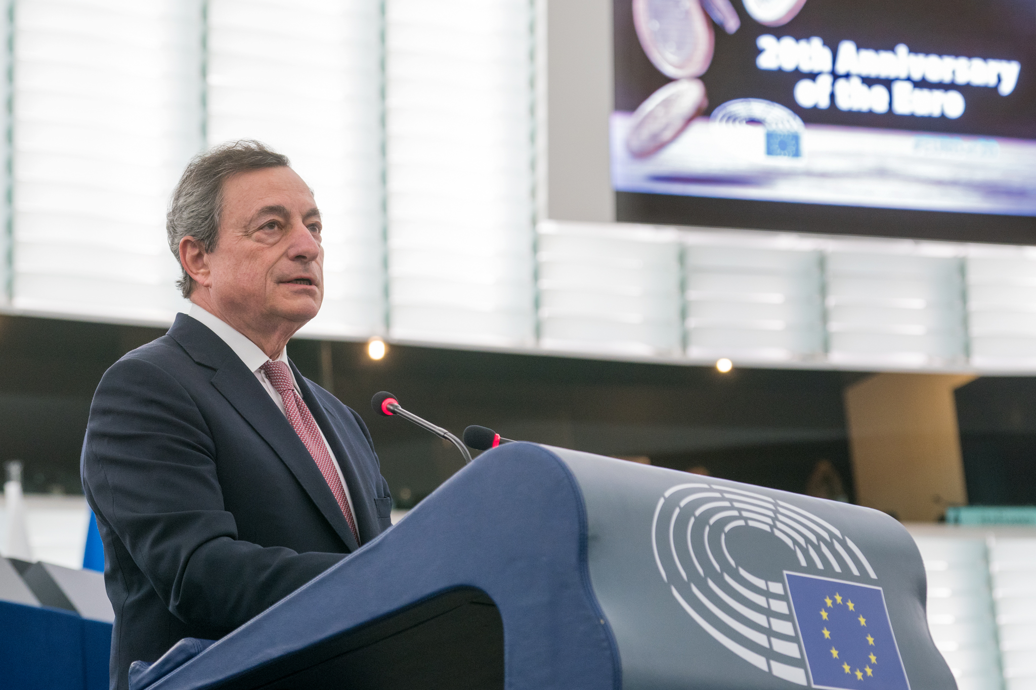 The launch of the euro two decades ago brought tangible benefits to people and companies across the EU. A ceremony in Parliament on 15 January marked the event. Read our full article here: This photo is free to use under Creative Commons license CC-BY-4.0 and must be credited: "CC-BY-4.0: © European Union 20XY – Source: EP". No model release form if applicable. For bigger HR files please contact: webcom-flickr(AT)